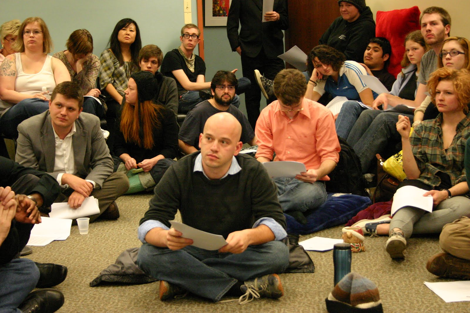 Students and faculty deliberate at the November 15th, 2009 meeting of the Shimer College Assembly.